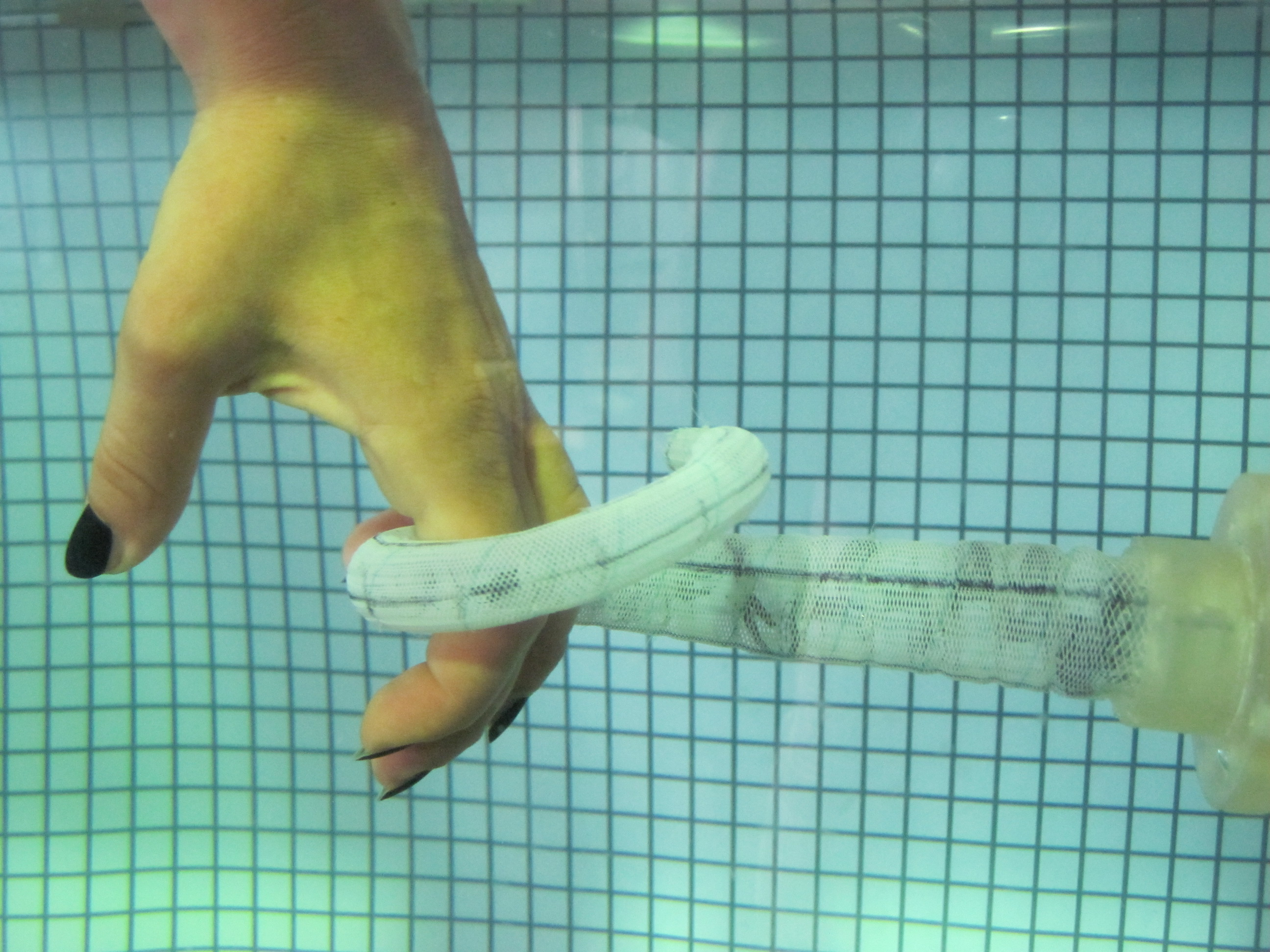 Flexible octopus-like robot arm